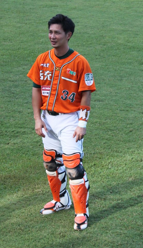 Kao Chih-kang at a baseball game of Taiwan in June 8, 2013.